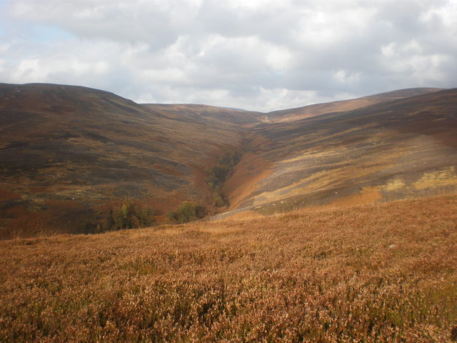 Caen Burn tributaries meeting across moor